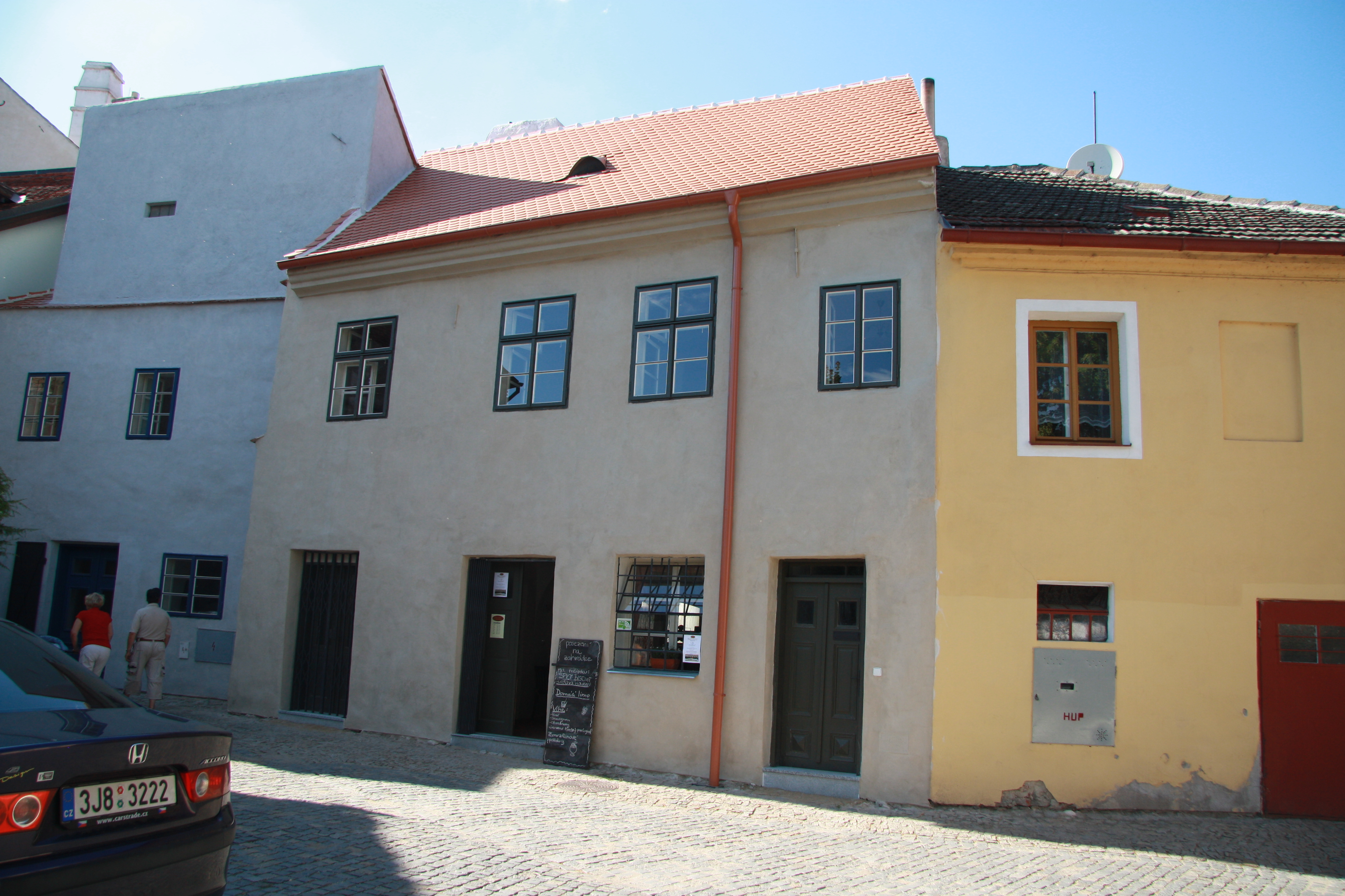 Building Leopolda Pokorného 10/3, Třebíč, Třebíč District.